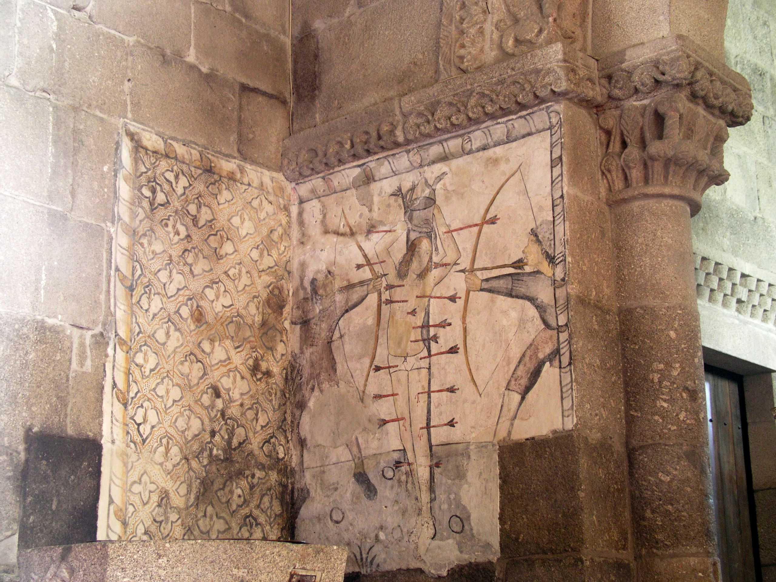 Romanic church of Bravães, Ponte de Barca, Portugal